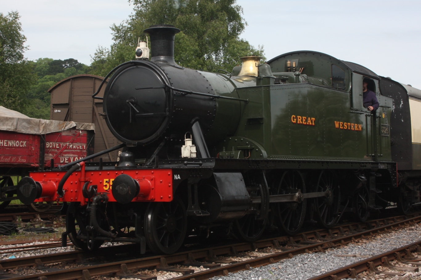 The South Devon Railway' 'prairie tank' number 5526 was overhauled in 2016 and re-entered service carrying Great Western green livery the following spring. It is seen arriving at Totnes Riverside.